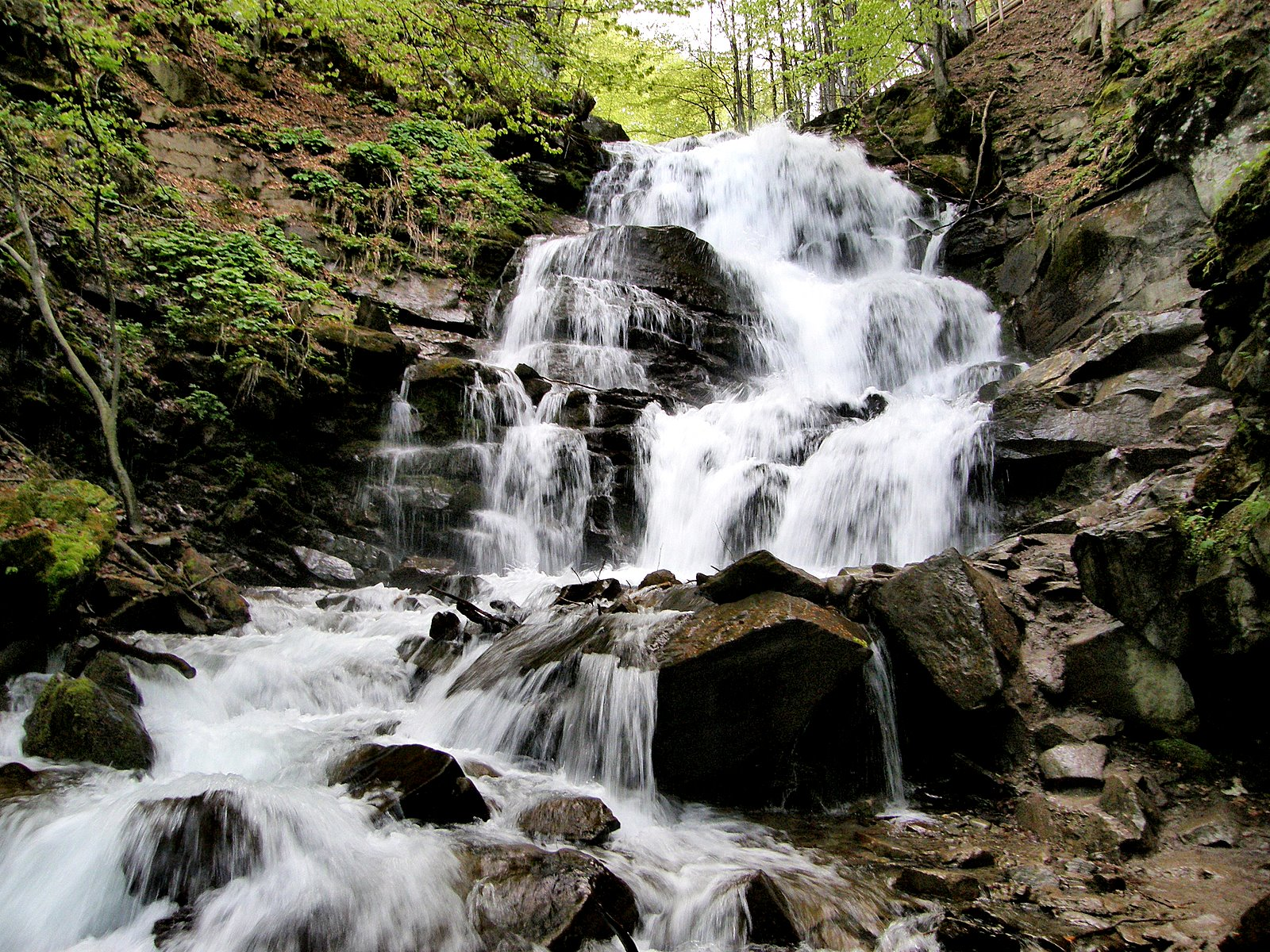 Shypot Waterfall, Ukraine